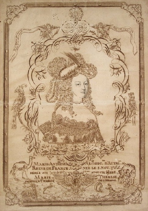 Portrait of Marie Antoinette by the writing master Pierre Jean Paul Berny de Nogent (1722-1779)